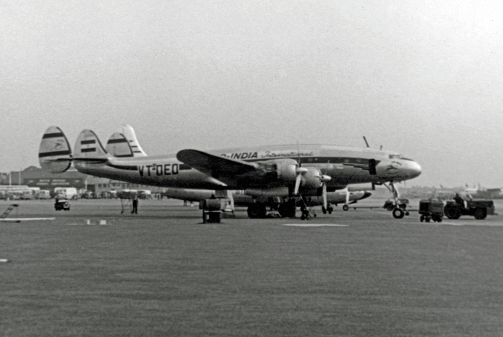 Air India International Lockheed L-749A Constellation VT-DEO "Bengal Princess" at London (Heathrow) Airport in 1953